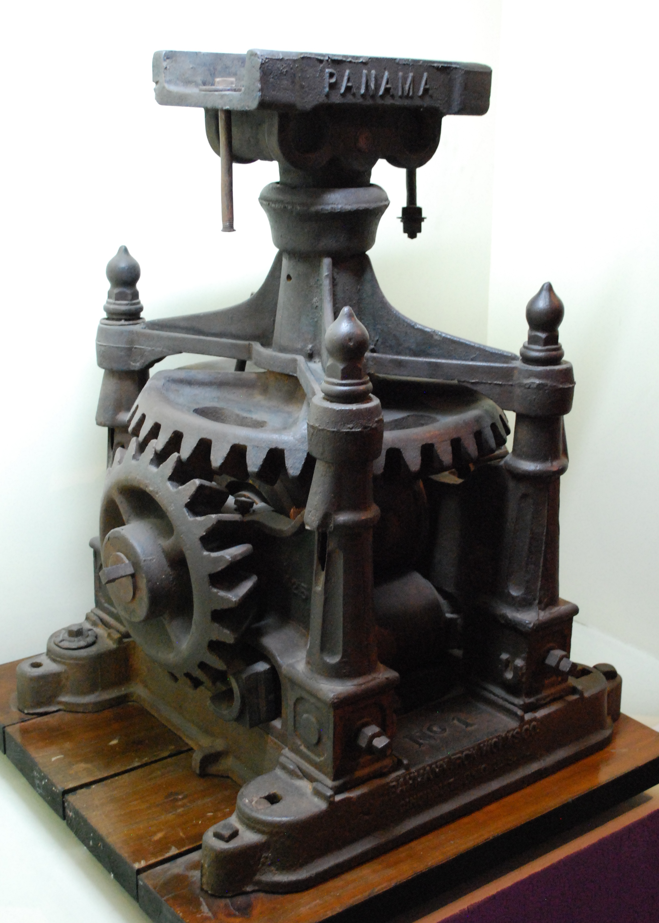 19th century sugar cane mill from Tapachula on display at the Regional Museum in Tuxtla Gutierrez, Chiapas, Mexico